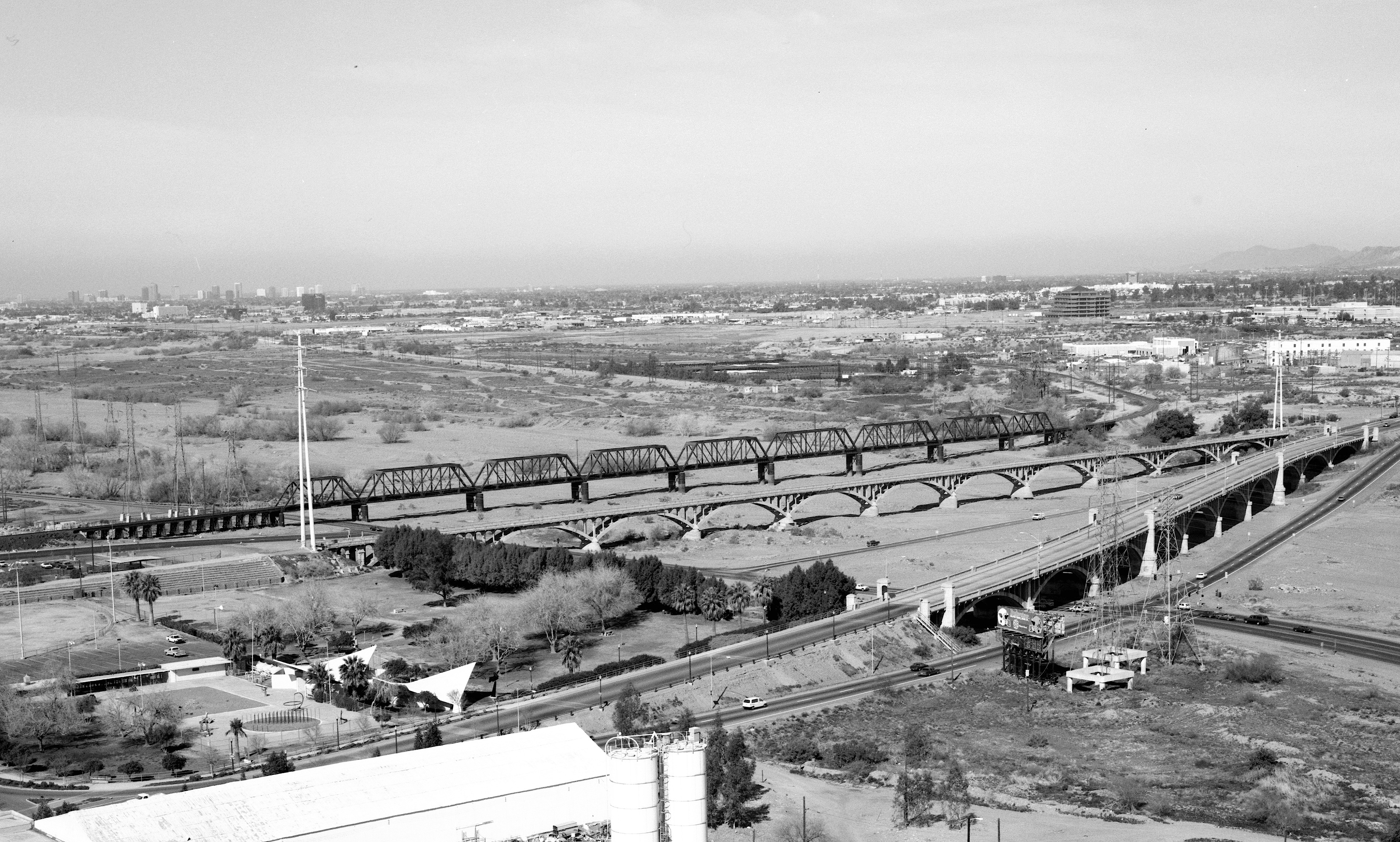 Southern Pacific Railroad Bridge, Ash Avenue Bridge and Mill Avenue Bridge from Tempe Butte looking northwest. - Arizona Eastern Railroad Bridge, Spanning Salt River, Tempe, Maricopa County, AZ